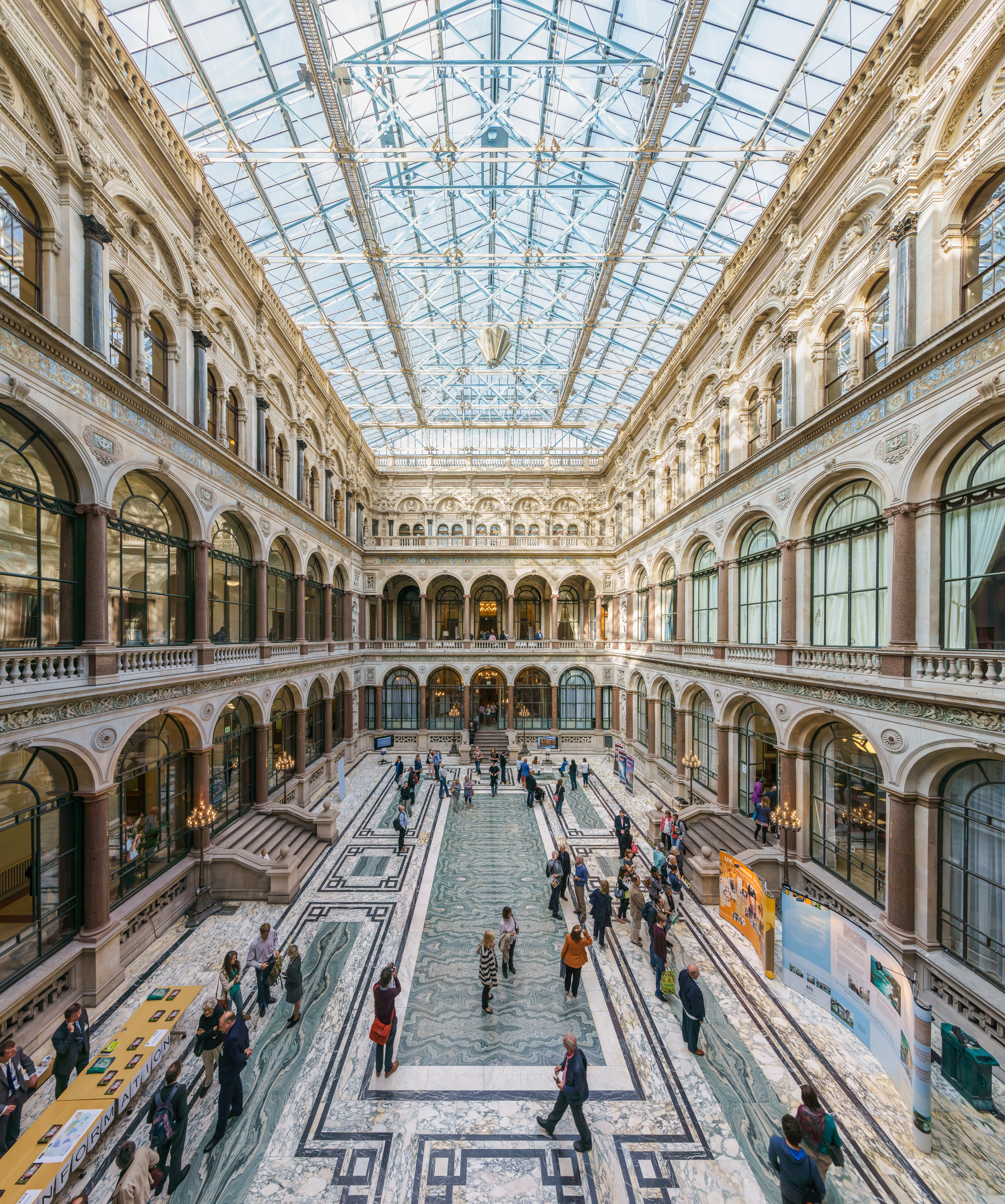 Foreign and Commonwealth Office - Durbar Court. Wikidata has entry Q358834 with data related to this building. (More images)